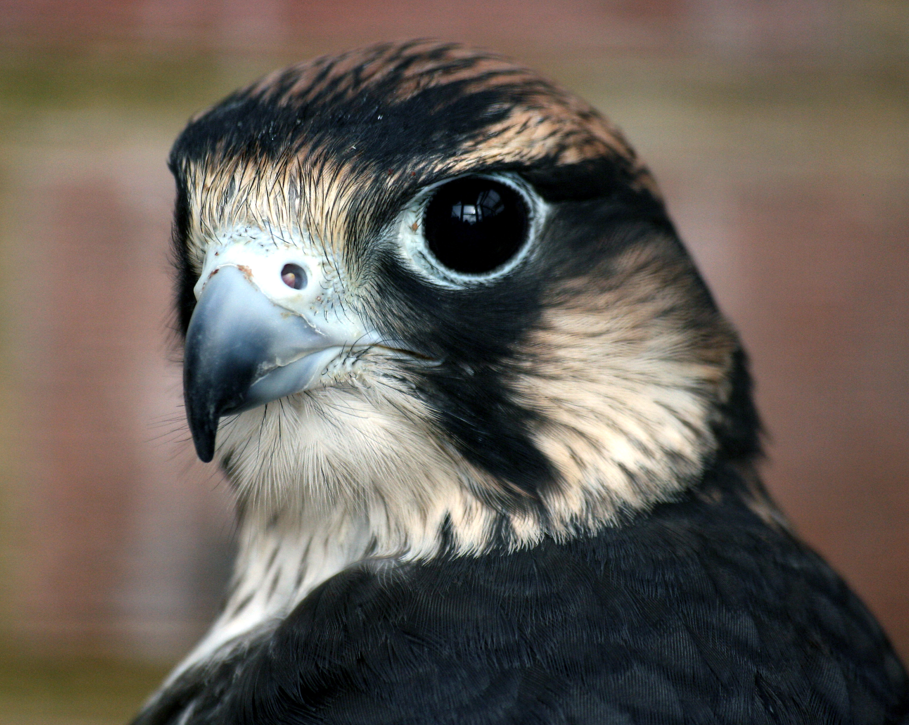 Unidentified (probably hybrid) Falcon Falco. Shot at Eagle Heights Wildlife Park, Kent, England.